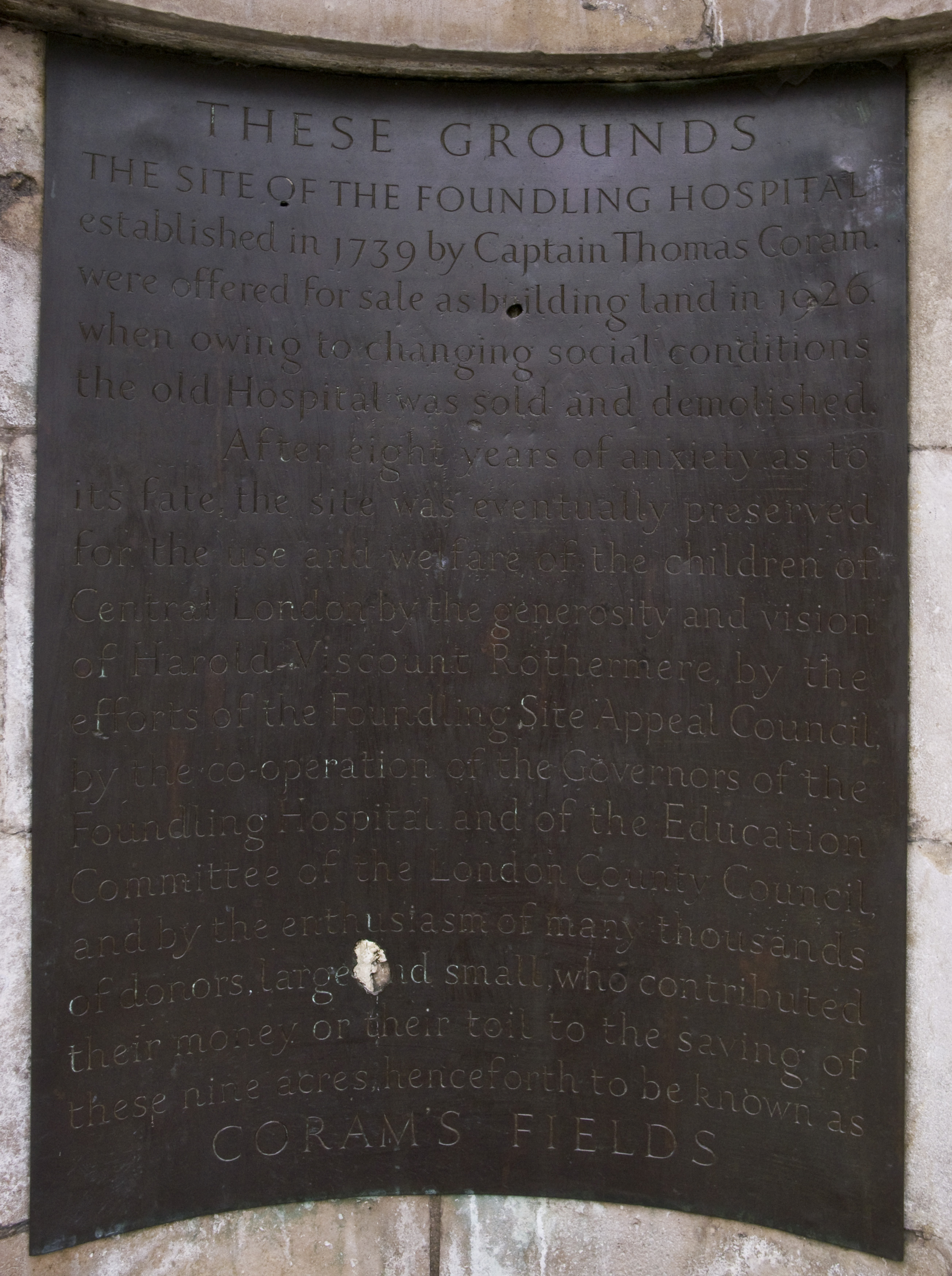 Bronze plaque at Coram's Fields in Bloomsbury, London, England.